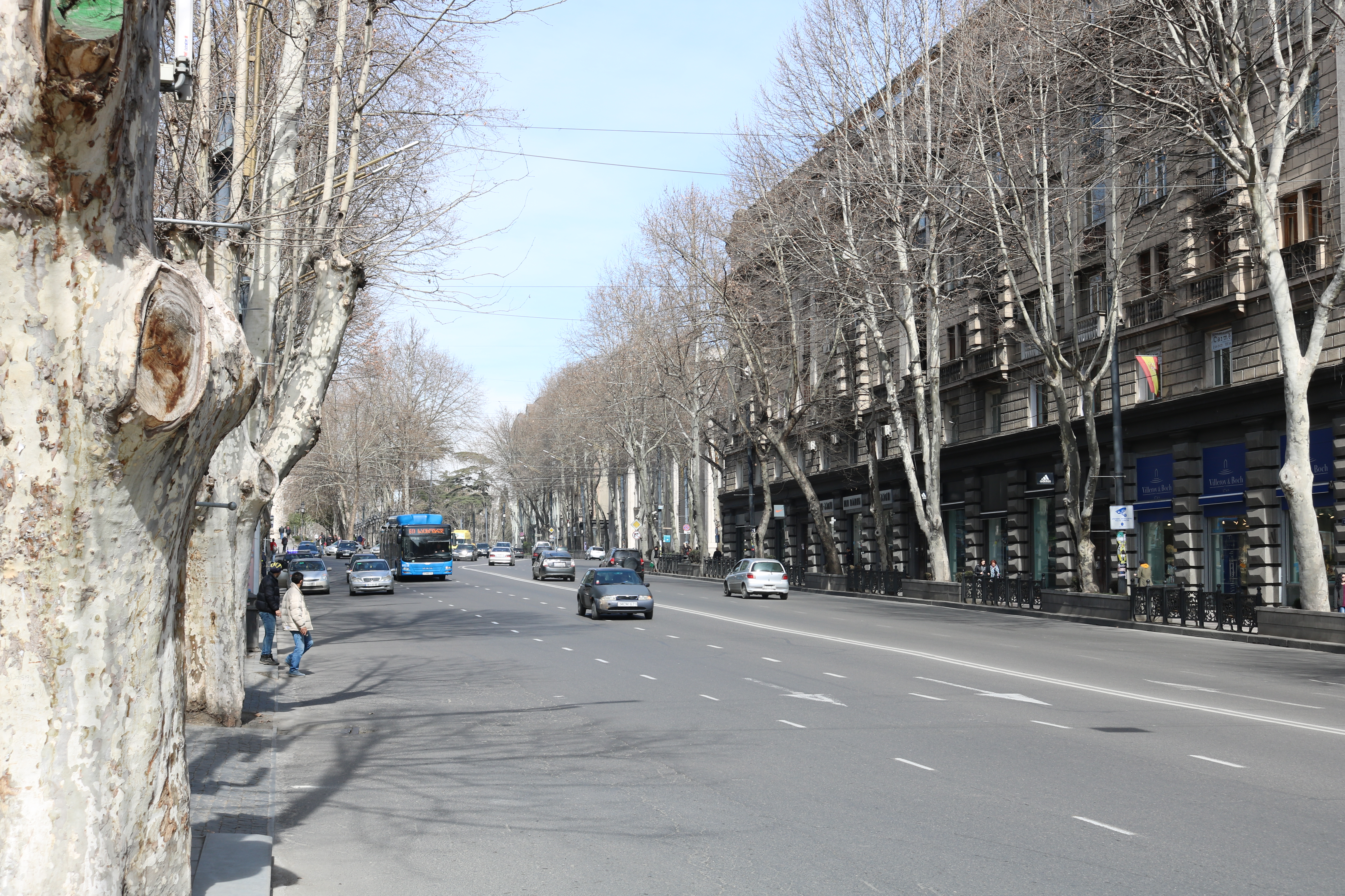 Rustaveli ave., Tbilisi, Georgia